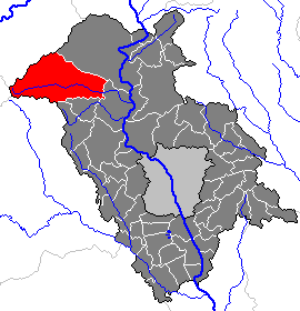 This map shows the area of the Gemeinde (municipality) Übelbach in the Bezirk (district) Graz-Umgebung, Styria, Austria.